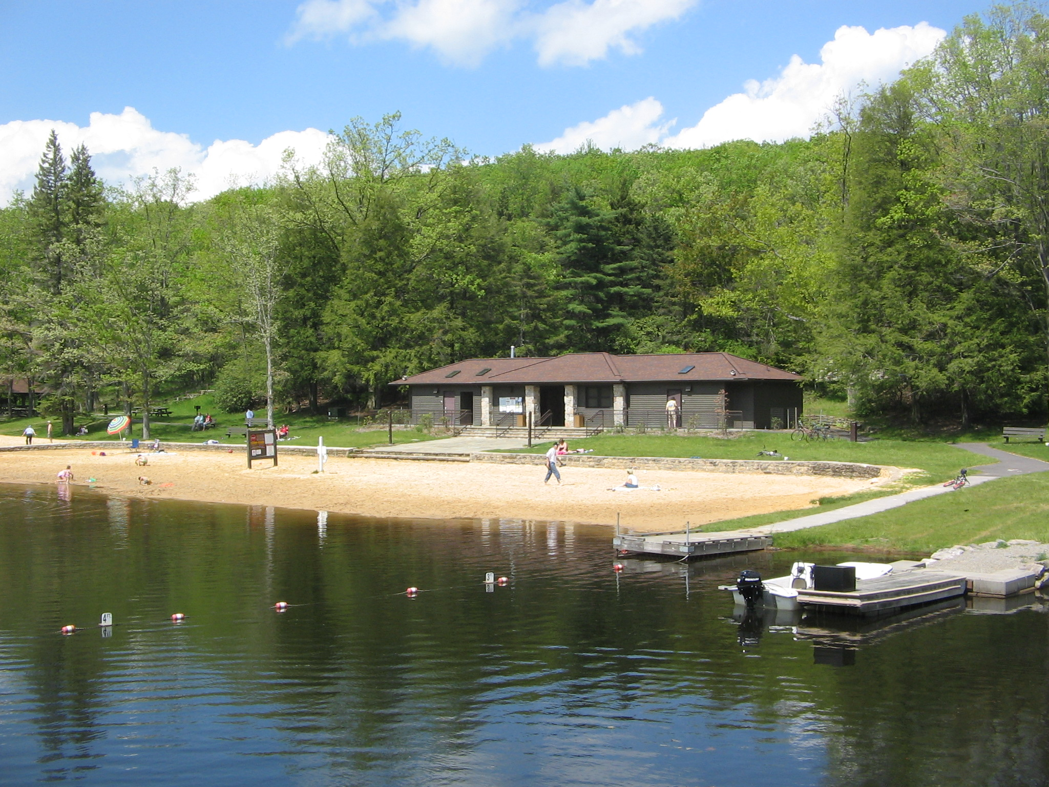 CCC Beach House and beach at Black Moshannon State Park, near Phillipsburg, Rush Township, Centre County, Pennsylvania, USA.